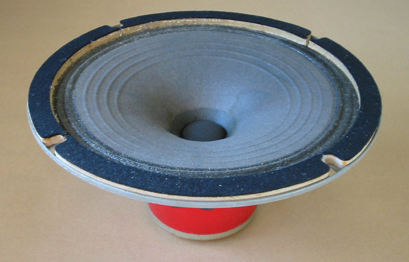 Goodmans Axiette speaker was one of the first of the single-cone truly full-range drivers with smooth and extended response of 40 Hz to 15 kHz. Goodmans Axiette was Ted Jordan's first project for Goodmans after joining them in 1952.